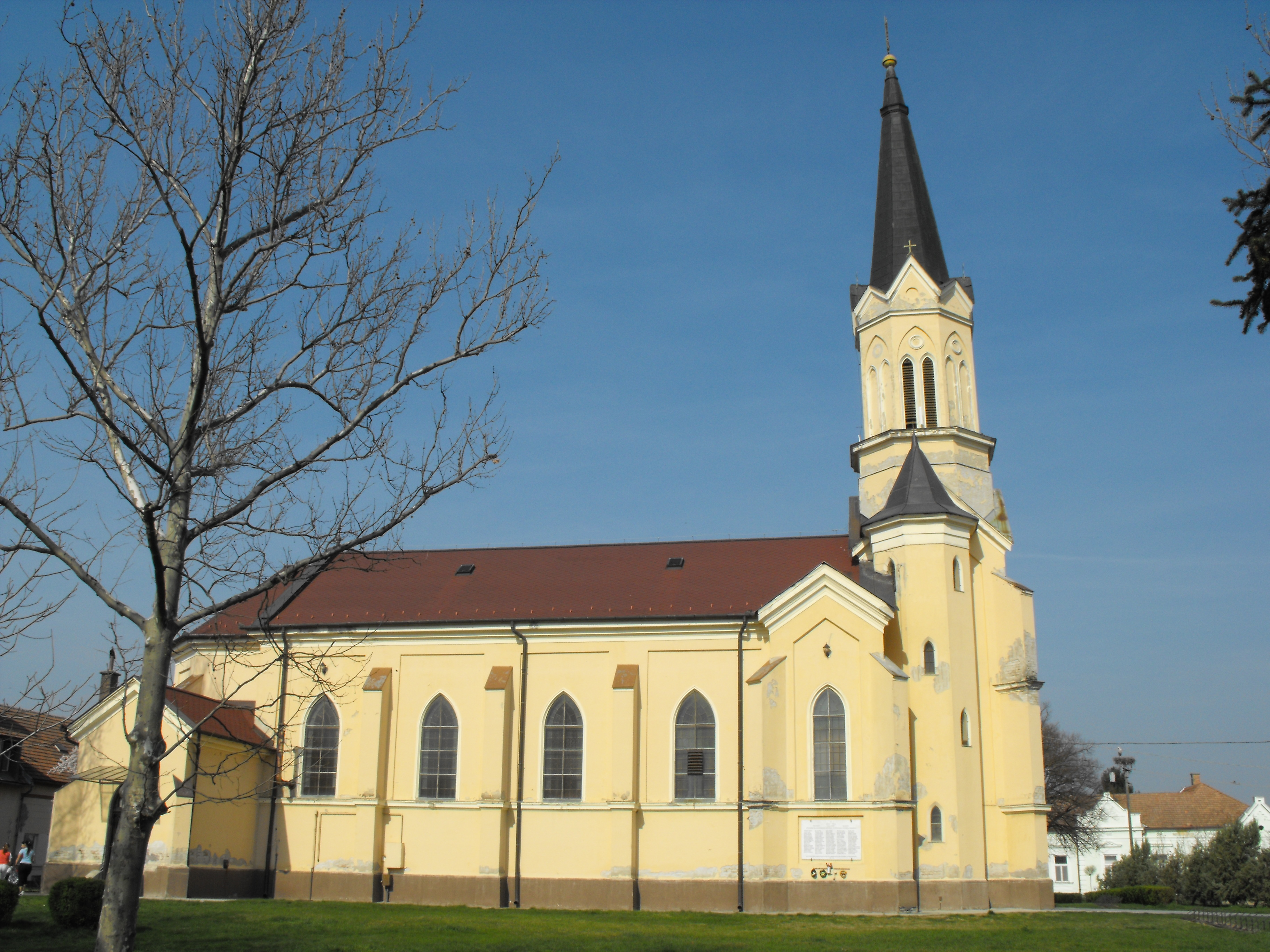 The Roman Catholic church of Maroslele, Hungary built in 1901 in neogothic style.